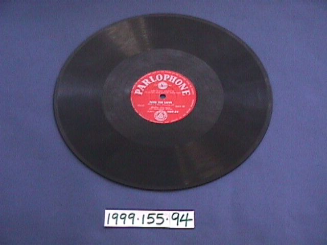 "Barnyard Hop" Parlophone vinyl 78 rpm record, vocals by Bonnie Lou, used by Glenys Gargan for song and dance. black vinyl record with no sleeve, red label in centre with white writing, title- Barnyard Hop, vocals by Bonnie Lou, a Parlophone recording, made in New Zealand by HMV recording studio